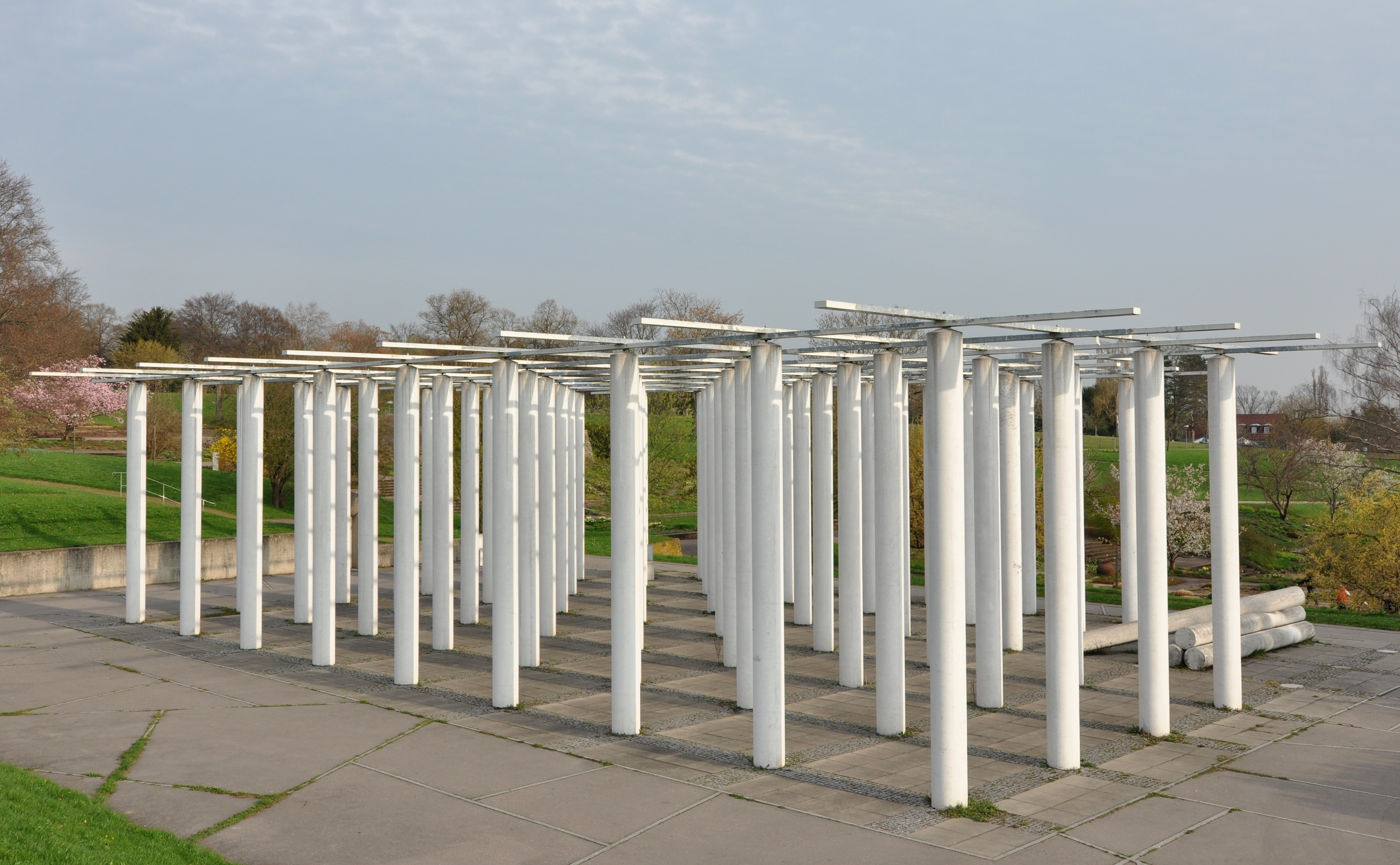 Column field (Stangenwald) by Hans Dieter Schaal, created 1993, in the Killesbergpark in Stuttgart